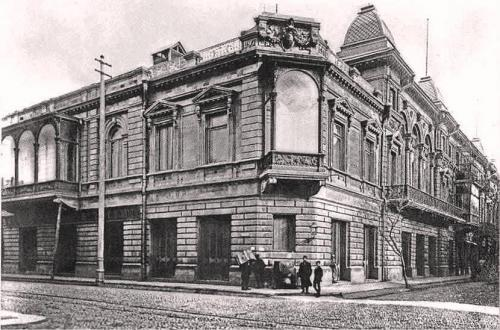 Tagiyev's house